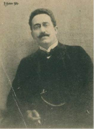 Polish sculptor Antoni Popiel (1865-1910)